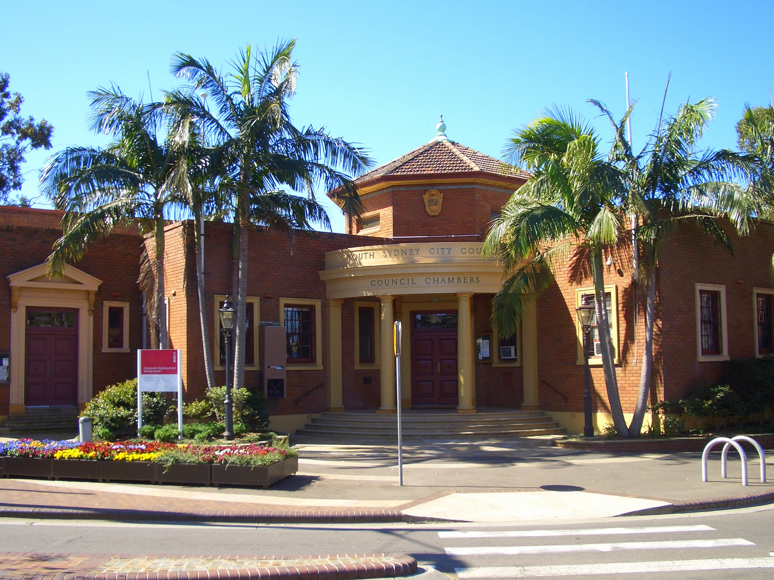 Council Chambers, Erskineville, Sydney (image has been altered to remove tilt, increase sharpness and saturation, 2014-9-12, by User:Sardaka)